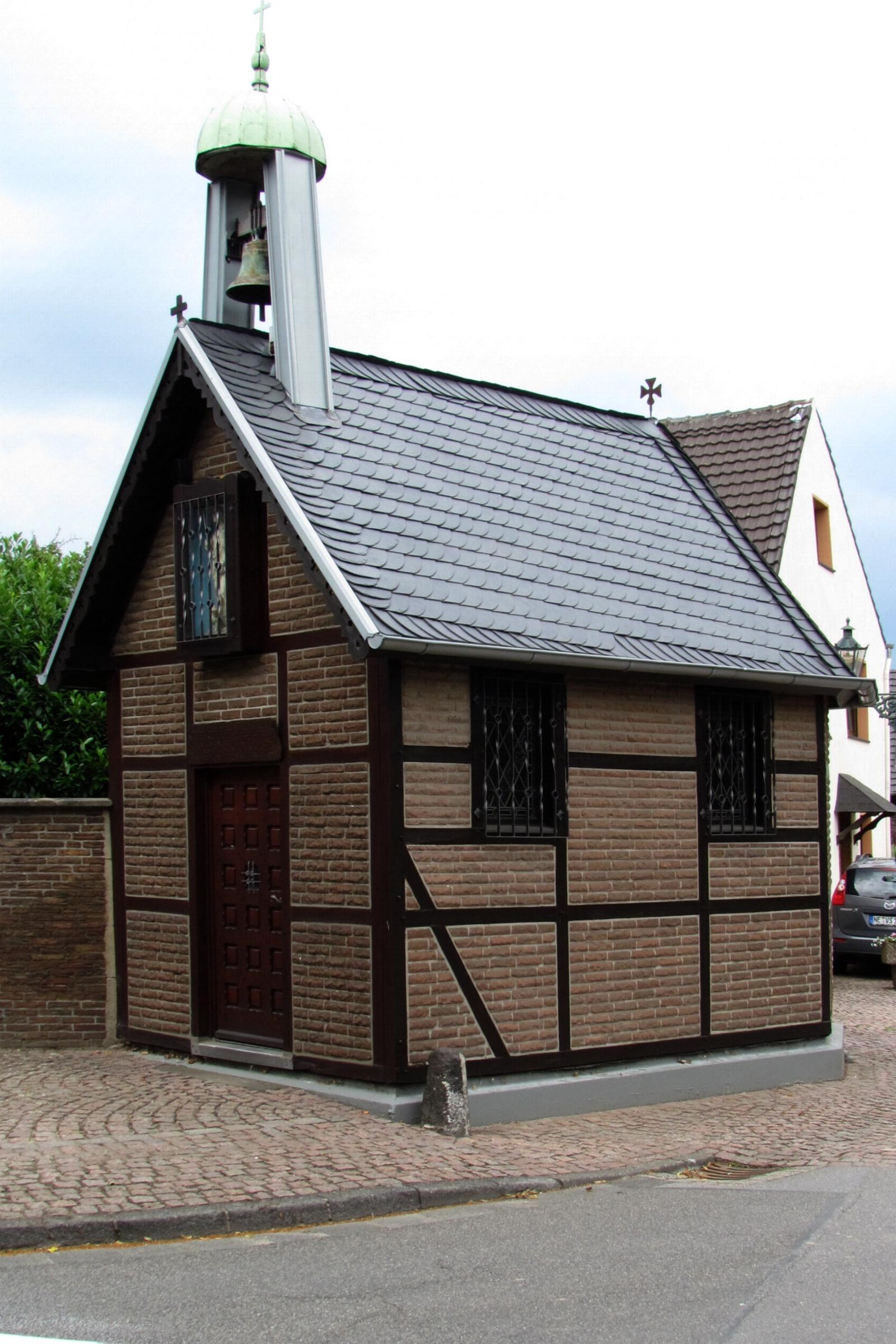 This is a photograph of an architectural monument.It is on the list of cultural monuments of Korschenbroich